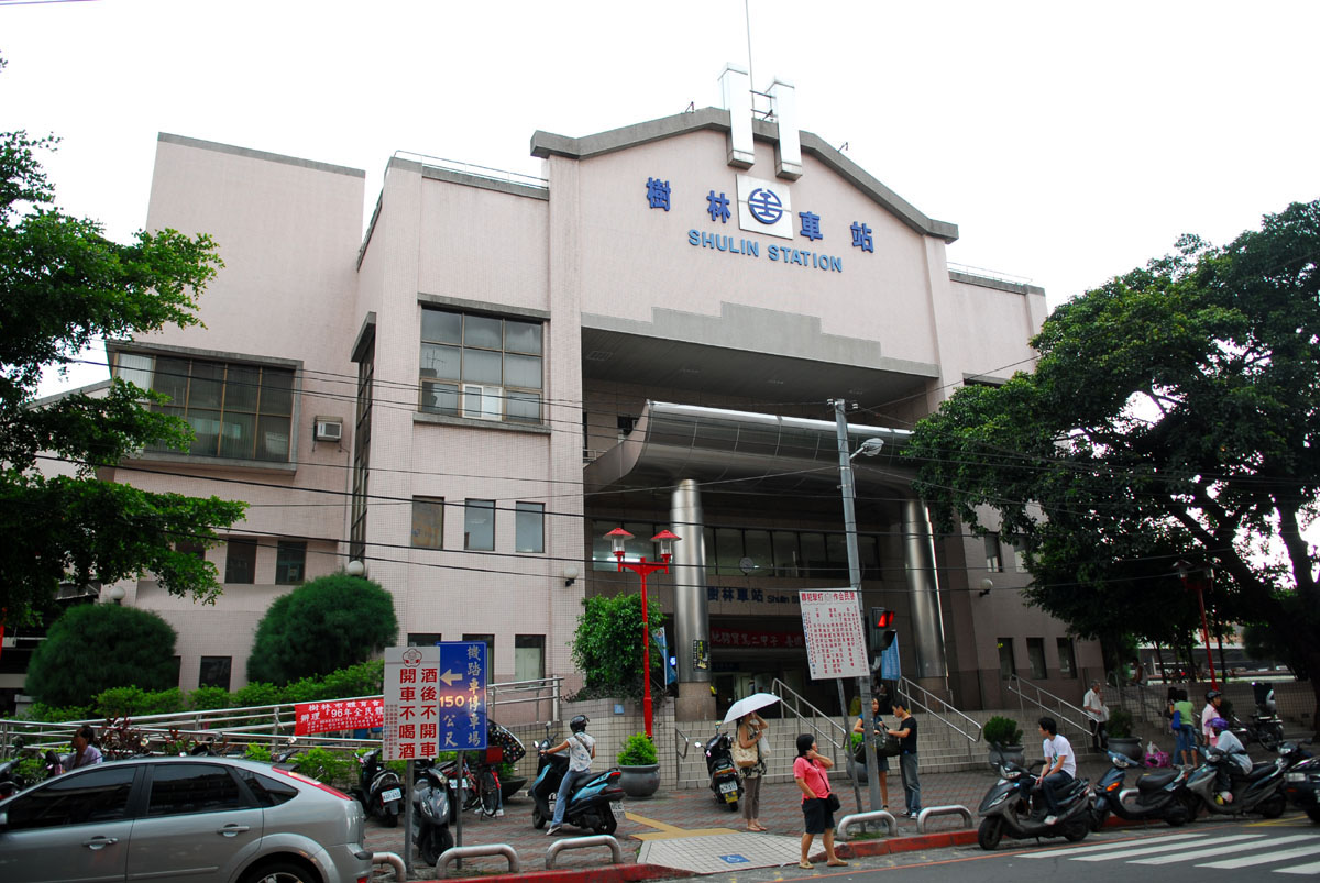 Front Station of TRA Shulin Station.